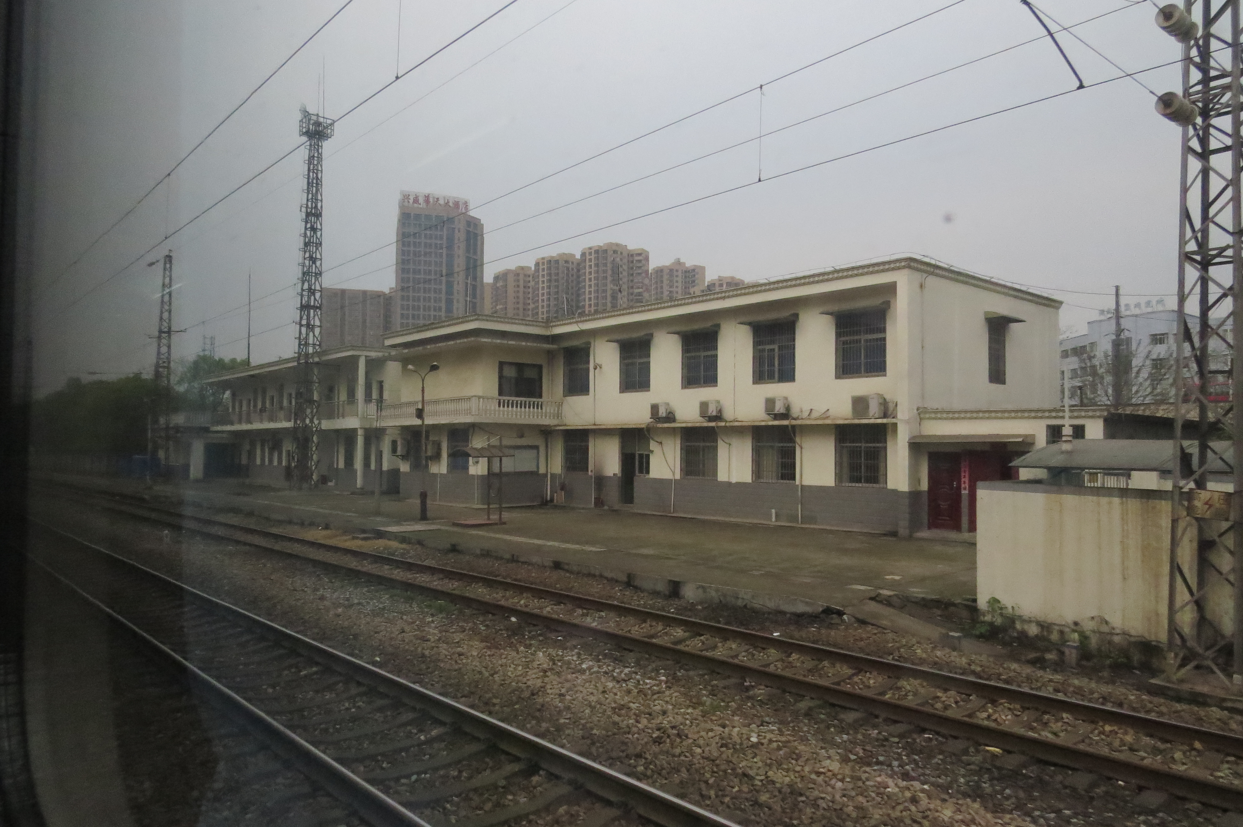 The next station after Changsha.